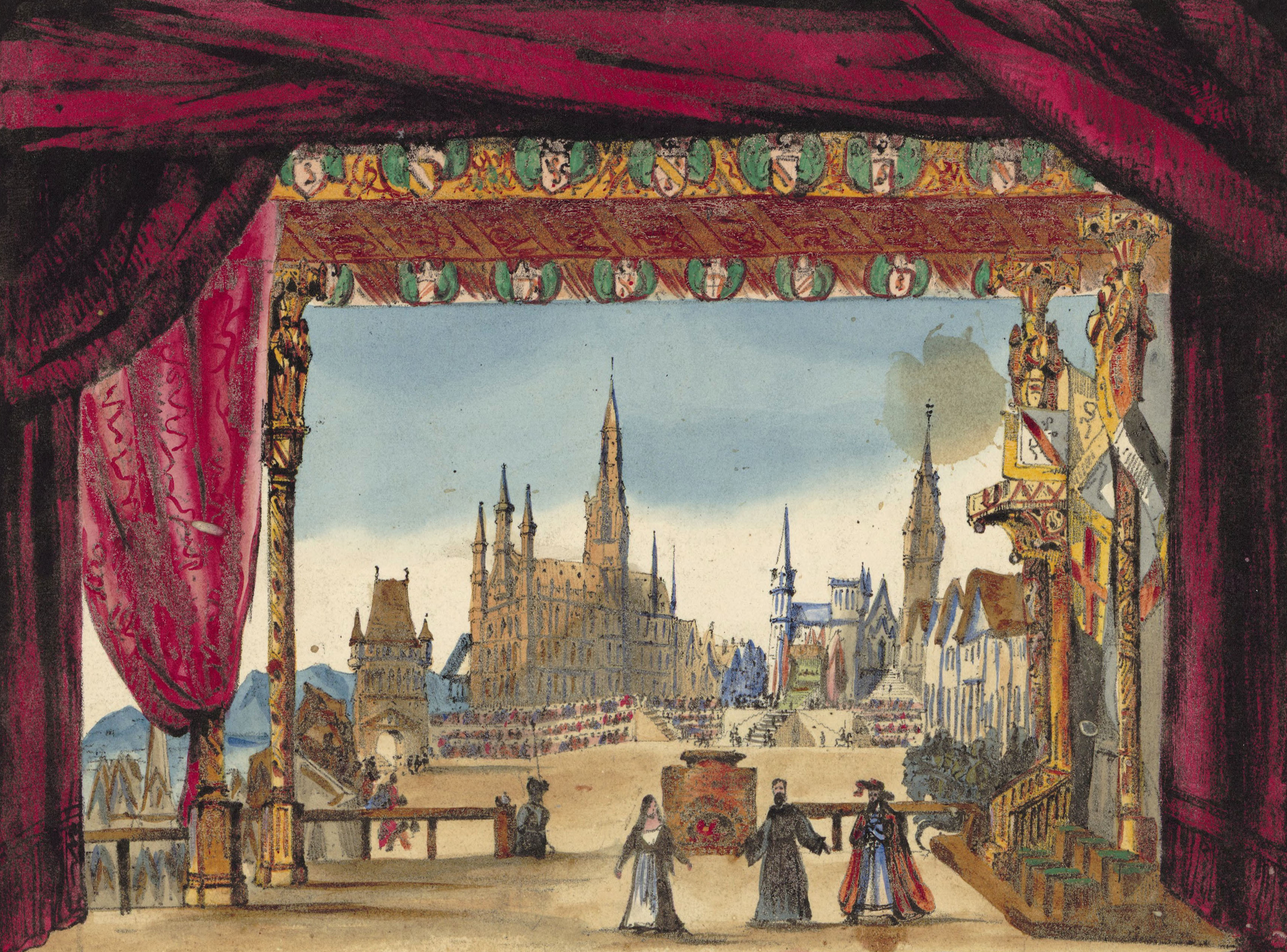 Set design for Act 5 of the opera La Juive by Fromental Halévy, for the original 1835 production at the Paris Opera